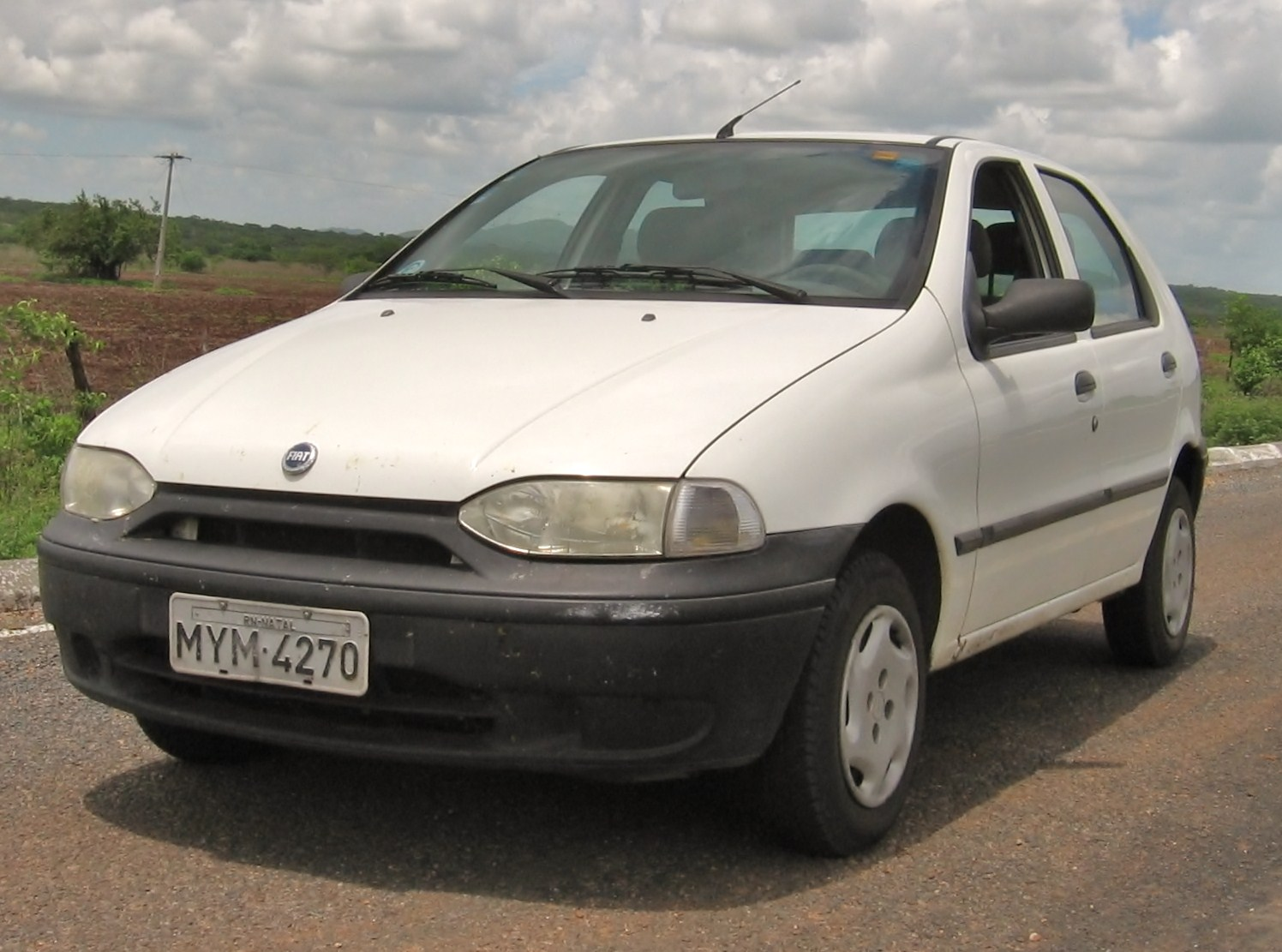 Fiat Palio